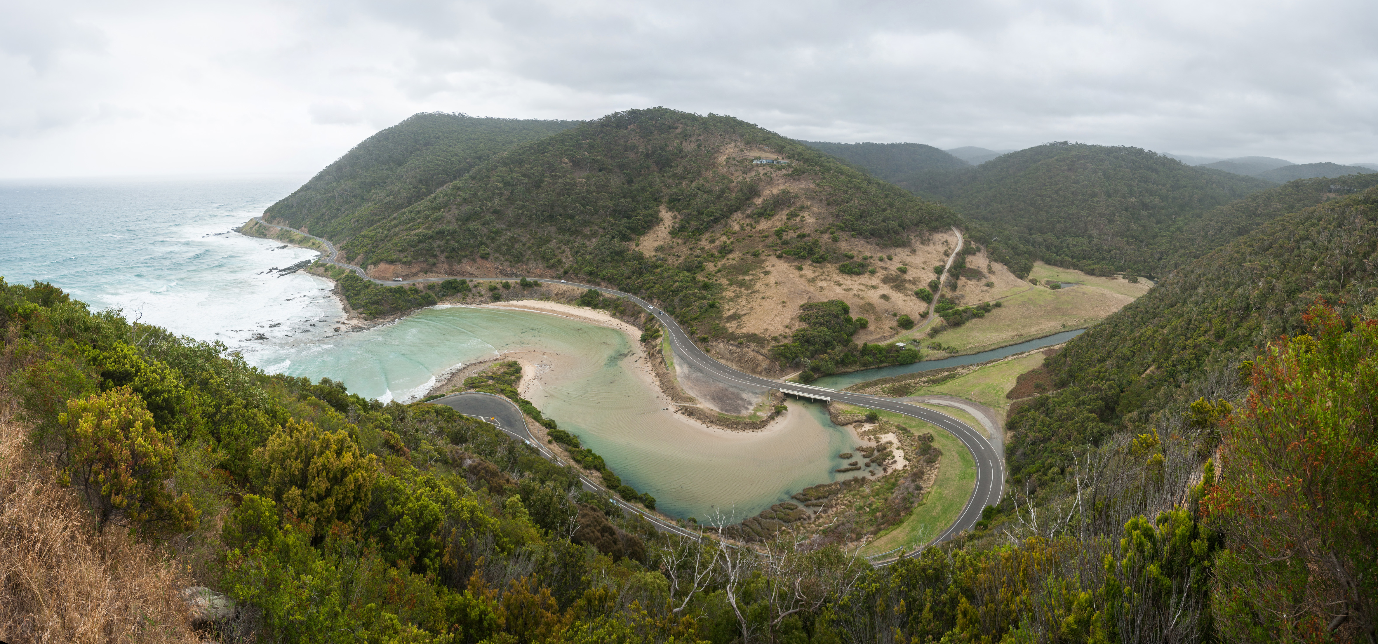 The curves of the Great Ocean Road as viewed from Teddy's Lookout south of Lorne in Victoria, Australia. Taken as a four segment panorama with a Canon 5D and 17-40mm lens.